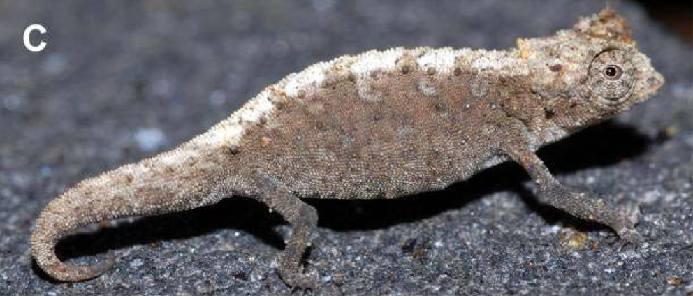 Male Brookesia confidens from Ankarana, Madagascar.